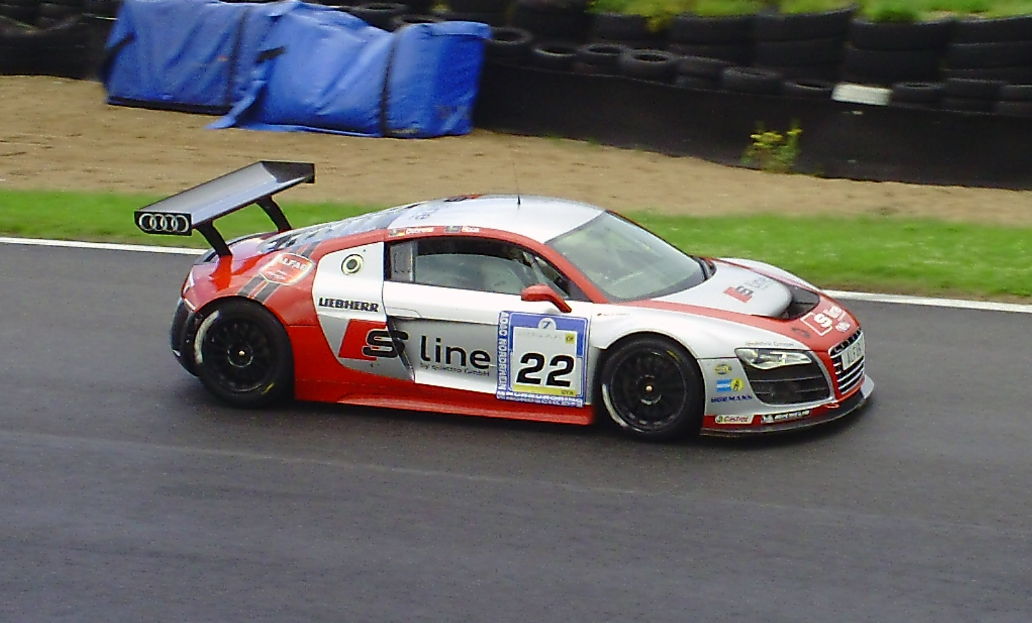 An Audi R8 Le Mans GT3 driven by Daniel Roos and Erik Behrens for ALFAB Racing in Swedish GT Series at Falkenbergs Motorbana, 2011